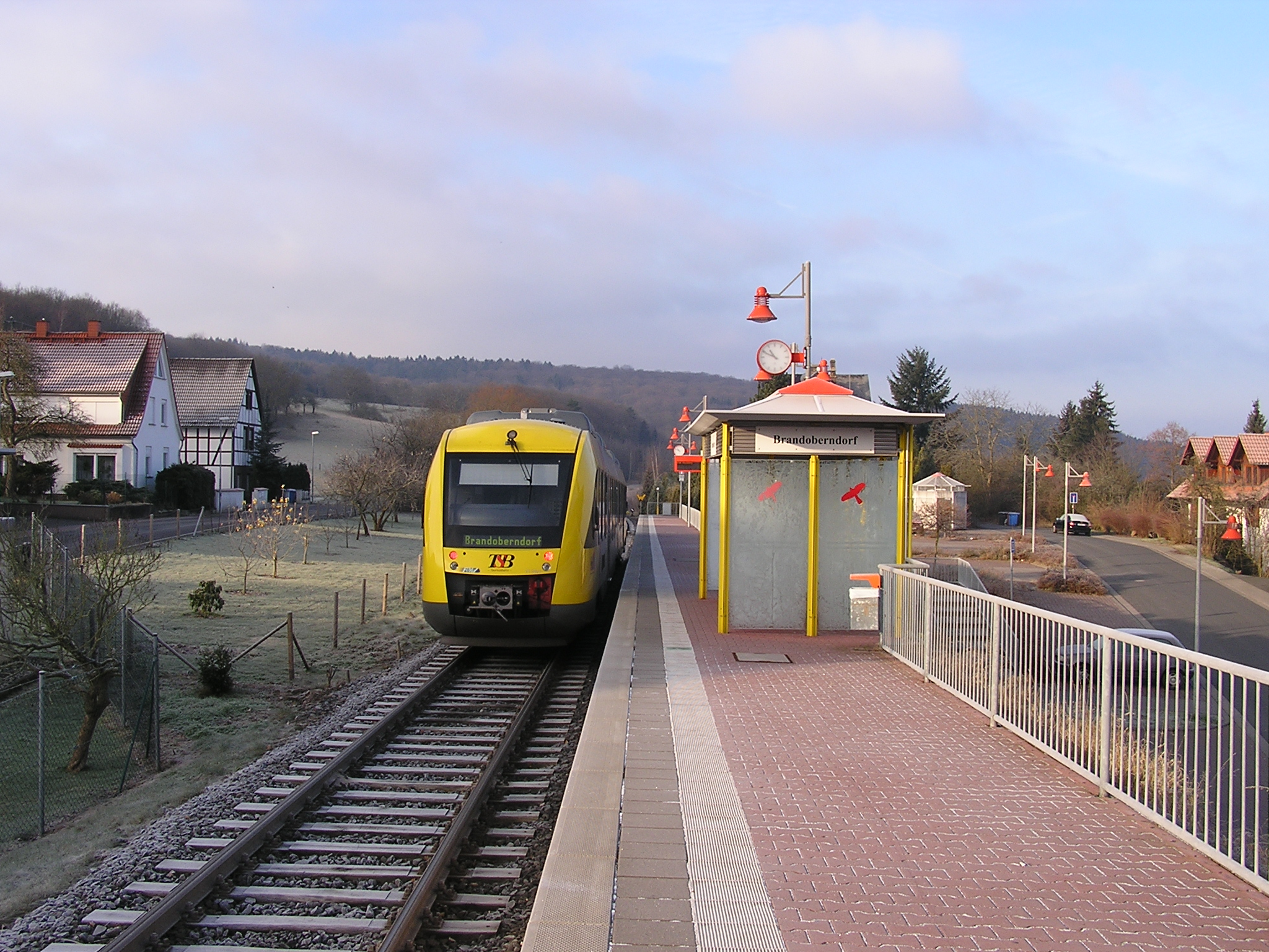 A LINT of the Taunusbahn has arrived in Brandoberndorf an now waits for his departure to Bad Homburg